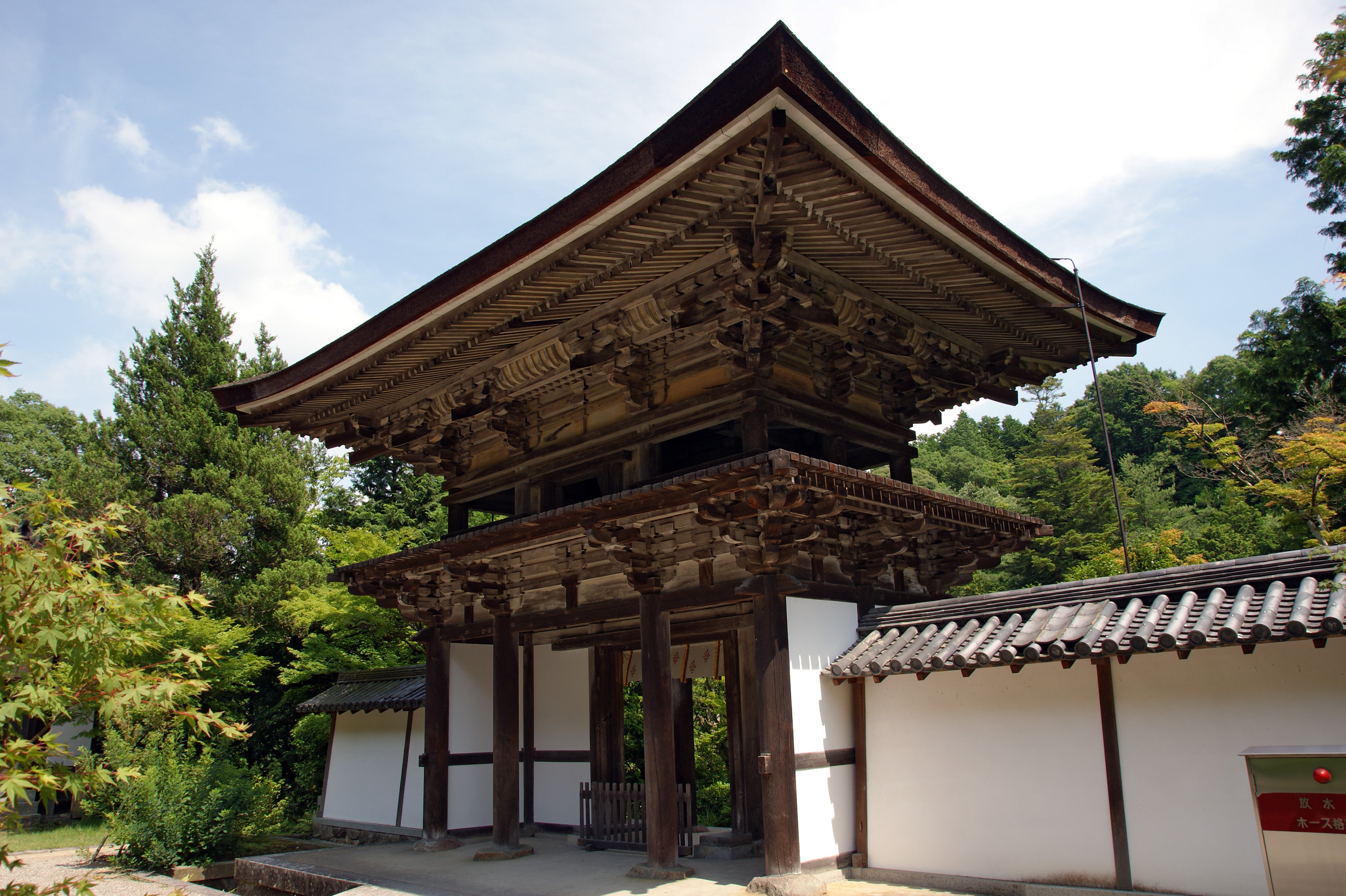 Enjoji in Nara, Nara prefecture, Japan